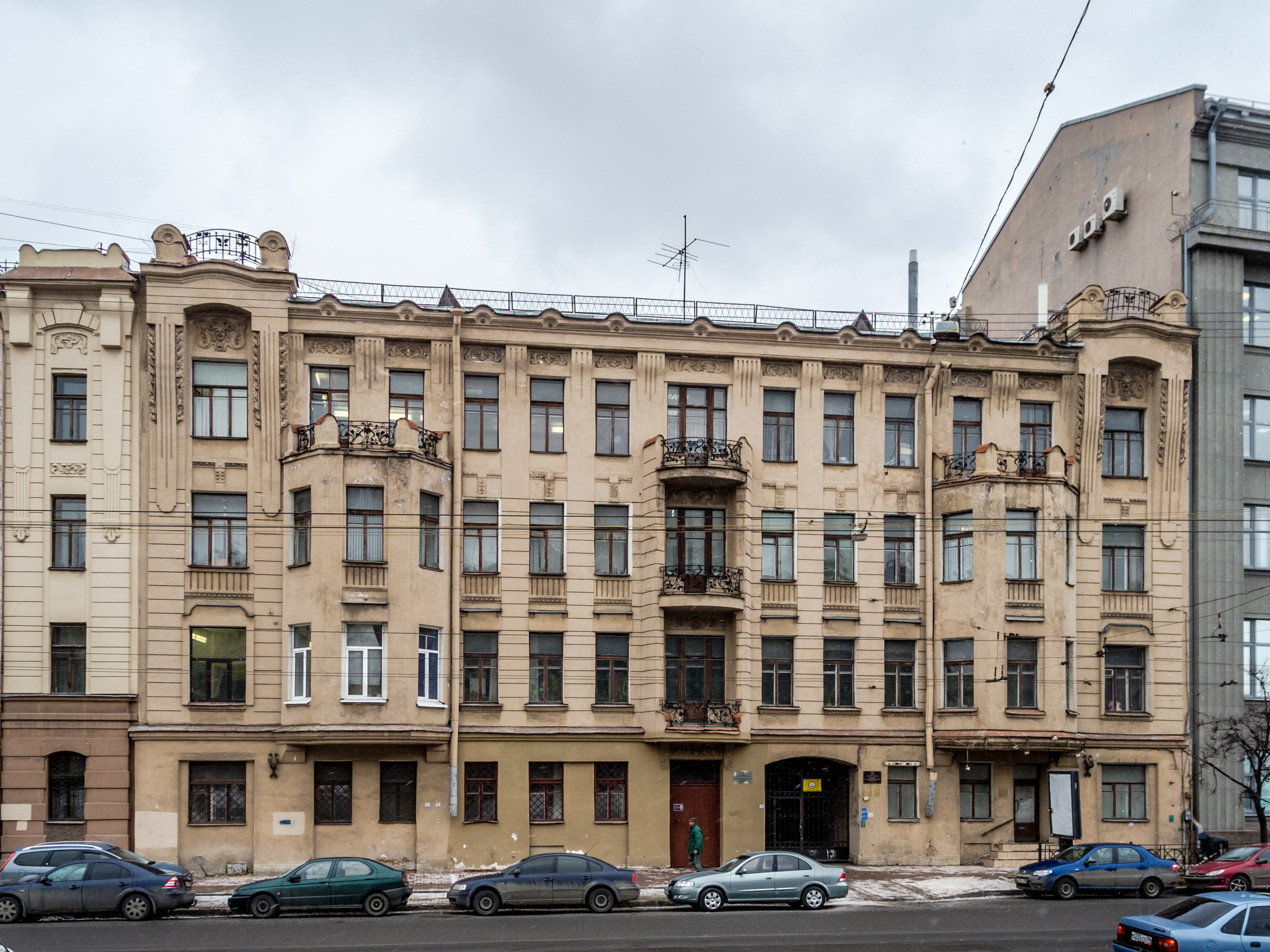 13, Dobroljubova avenue, Saint Petersburg